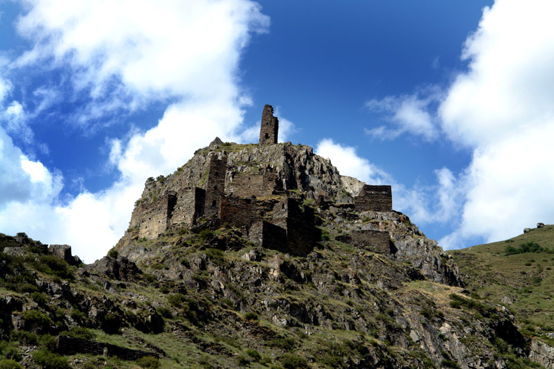 Mutso, Khevsureti Georgia.